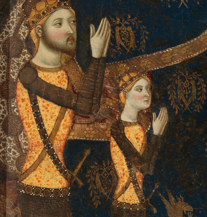 Detail from La Virgen de Tobed by Jaume Serra (1656), Museo del Prado, Madrid. [1]